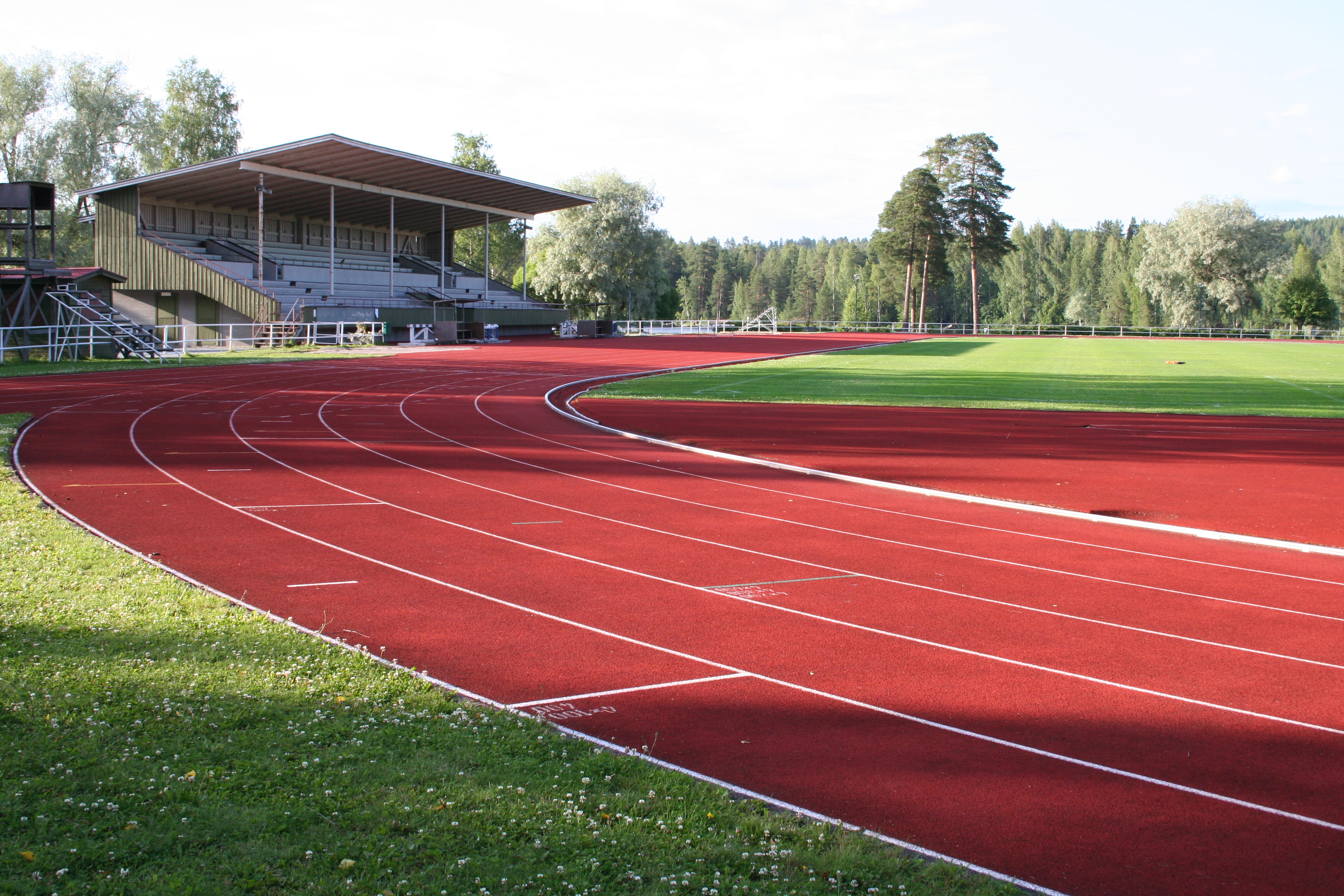 Oinaala stadium in Jämsänkoski, Finland